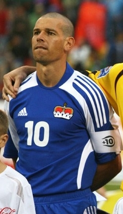 Mario Frick in Liechtenstein national football team